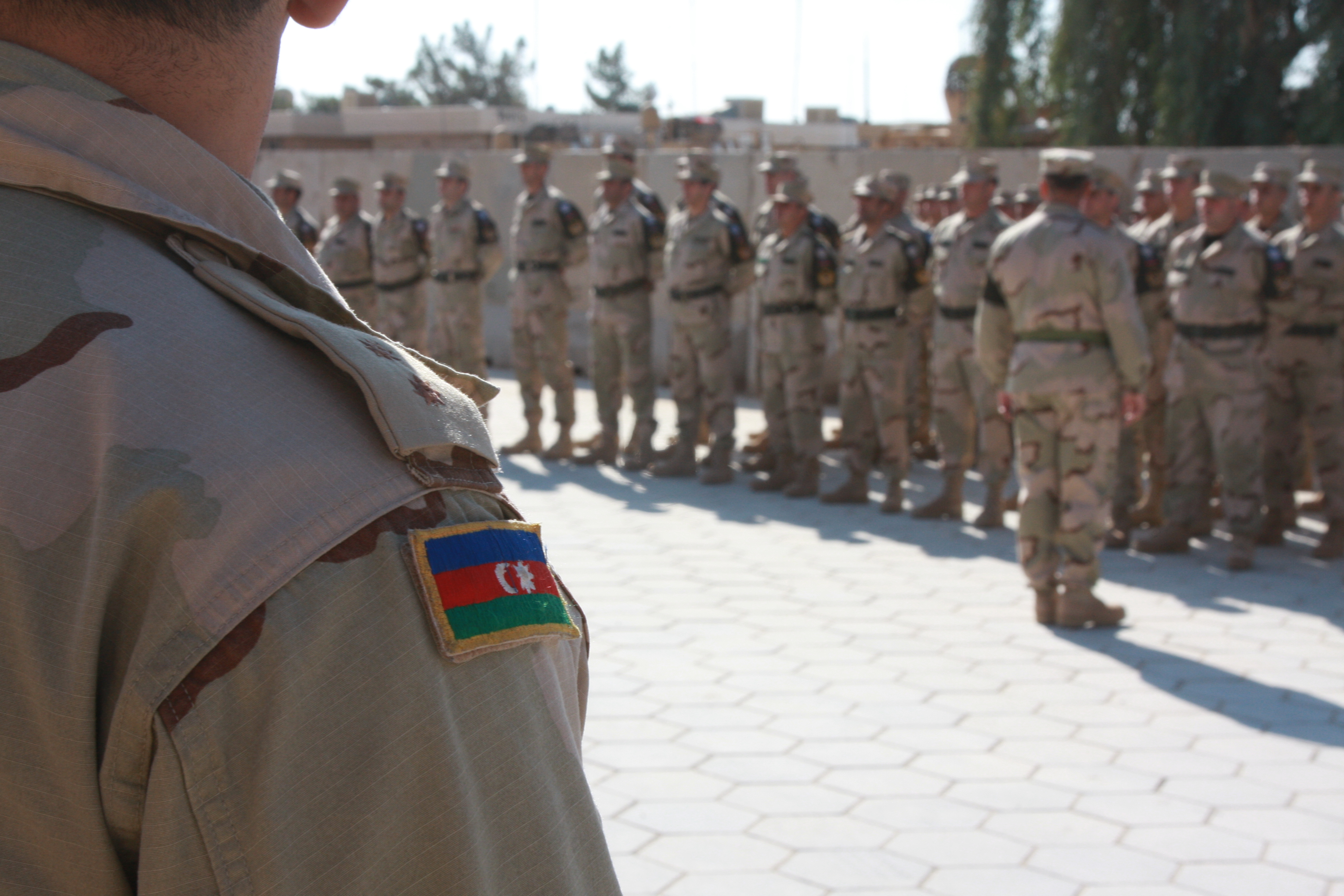 Azerbaijani army soldiers assigned to the 1st Azerbaijani Peacekeeping Company, stand in formation during a ceremony recognizing their contribution to Operation Iraqi Freedom at Camp Ripper, Asad, Iraq, Dec. 3, 2008. The Azerbaijan forces are in the process of leaving after providing security at the Haditha Dam since August of 2003. VIRIN: 081203-M-1391M-260